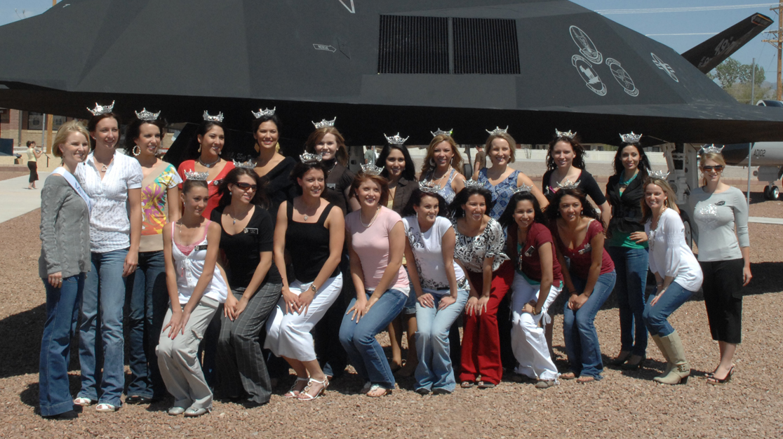 HOLLOMAN AIR FORCE BASE, N.M. -- Miss New Mexico pageant participants take a group photo in front of an F-117A static display at Heritage Park. The Miss New Mexico hopefuls visited Holloman to attend a workshop covering an upcoming pageant on base.